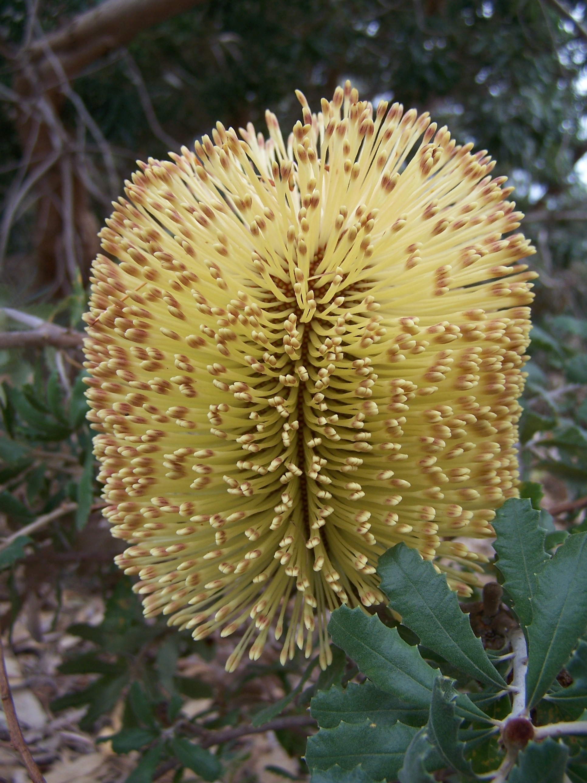 B. epica inflorescence and leaves.